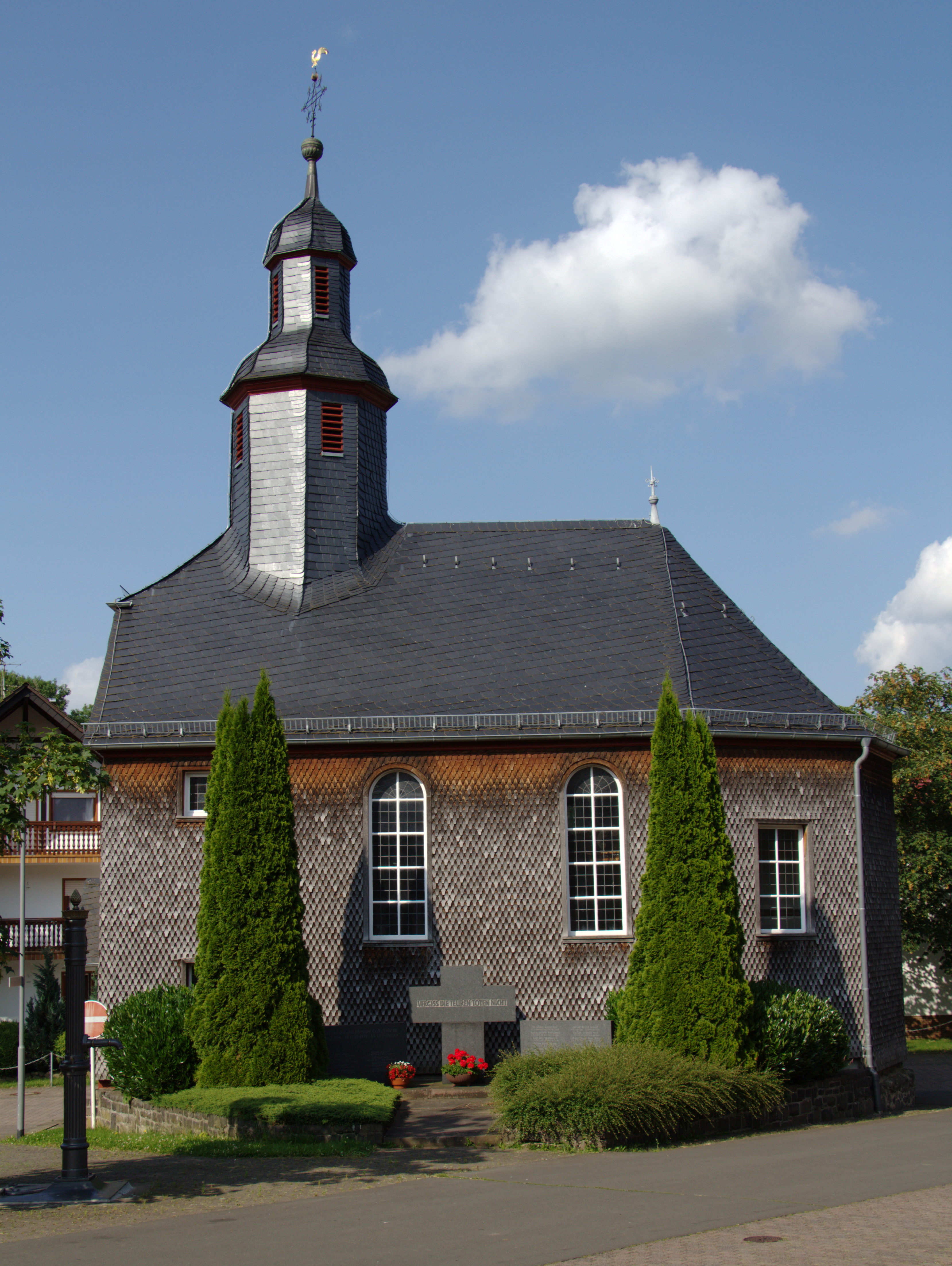 Half-timbered church in Ulrichstein, Unter-Seibertenrod Eichwaldstrasse, Hesse, Germany